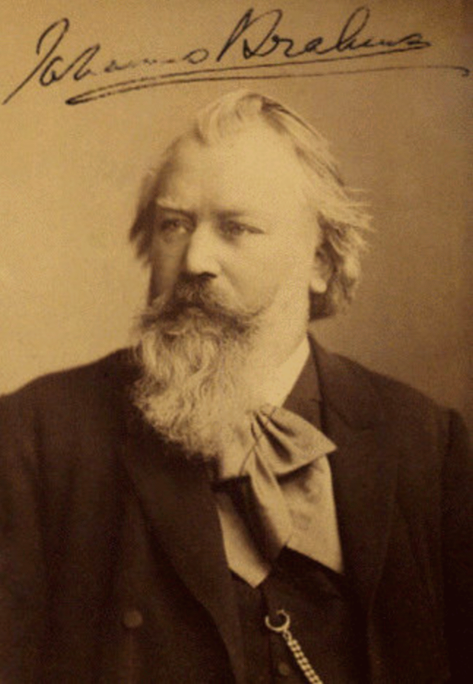 Johannes Brahms, photo with signature, 1889